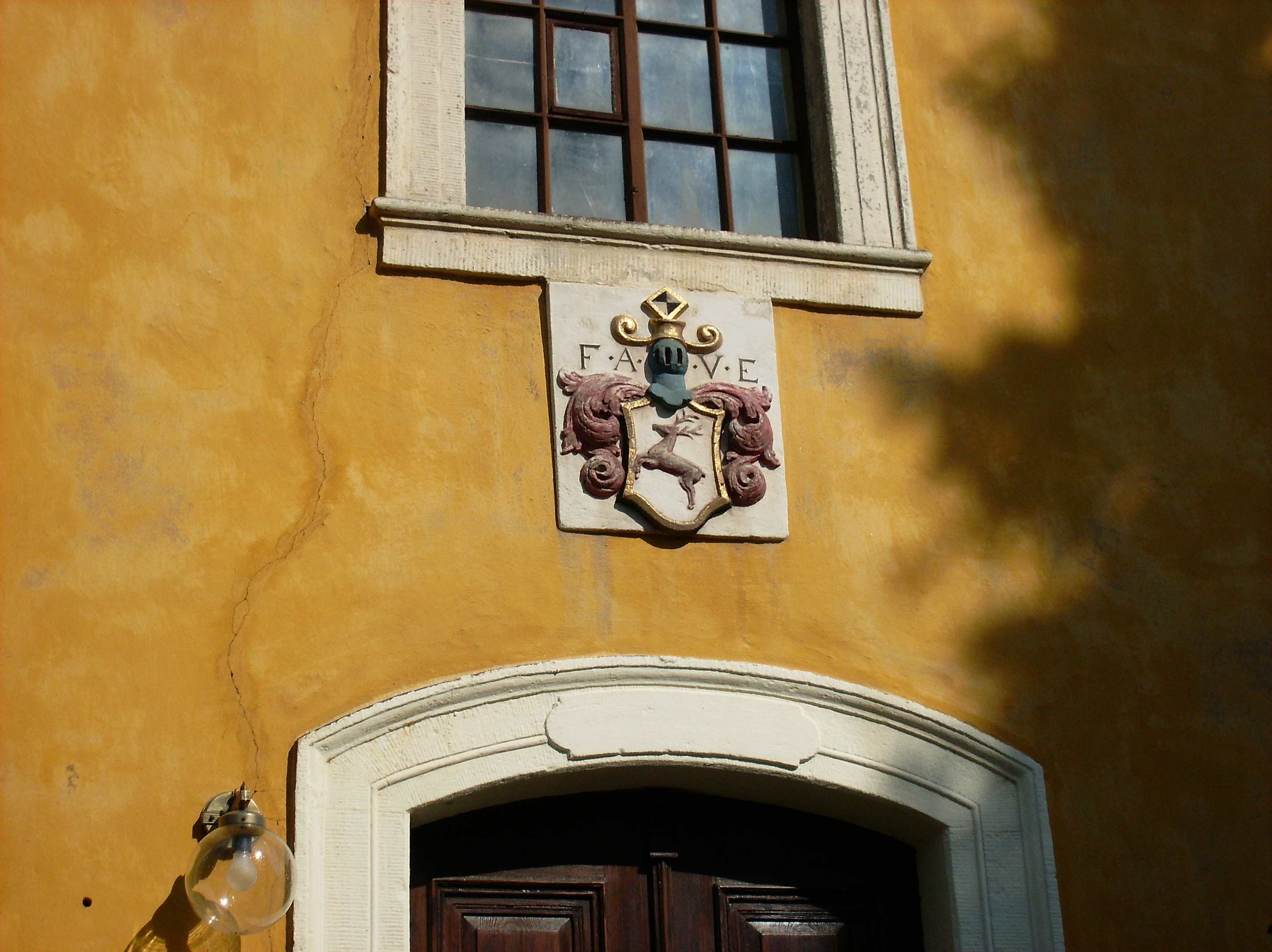 Coat of arms of Friedrich August von Etzdorf, lord of the Rauda manor, at Rauda church (district of Saale-Holzland-Kreis, Thuringia)